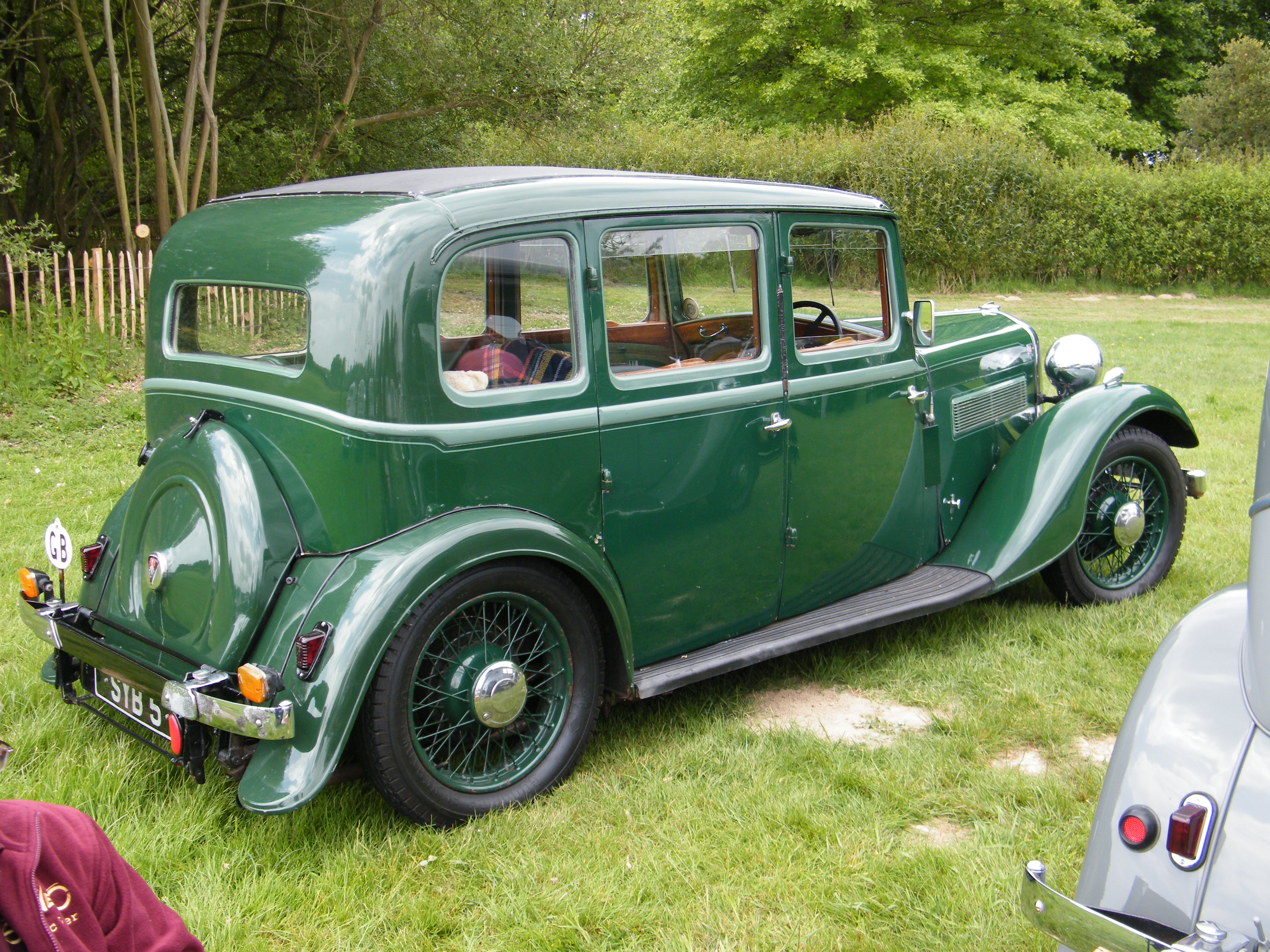 1936 Rover 12-4 six-light saloon SYB 5 (DVLA) no record Bentley Wildfowl and Motor Museum Halland Lewes Sussex Rover P4 Club Rally Teddy Bears Picnic 22nd. May 2011